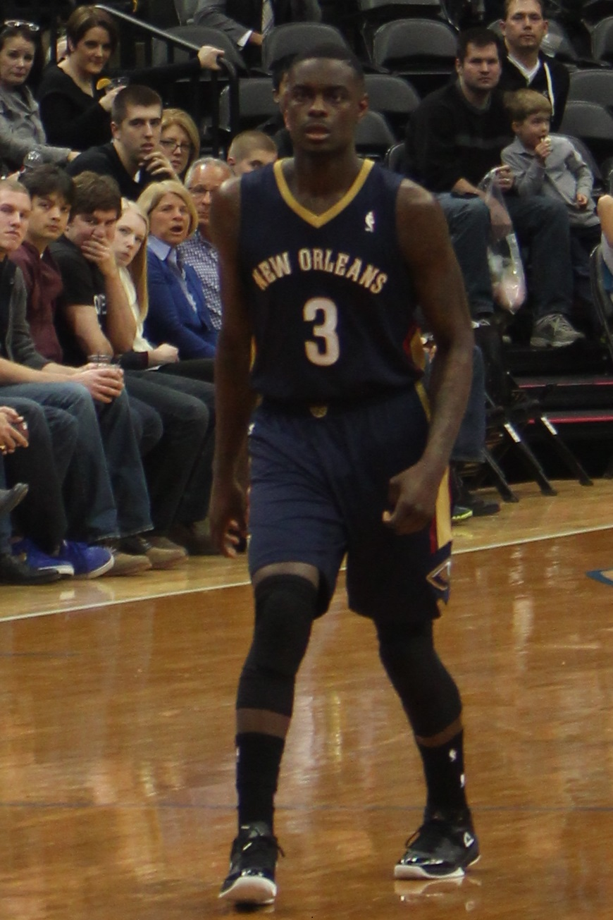 Anthony Morrow at the Target Center